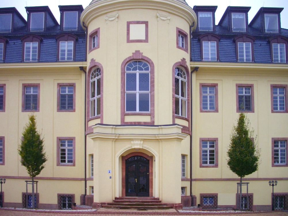 Castle, Schloss Zöbigker near Markkleeberg, Leipzig, Saxony